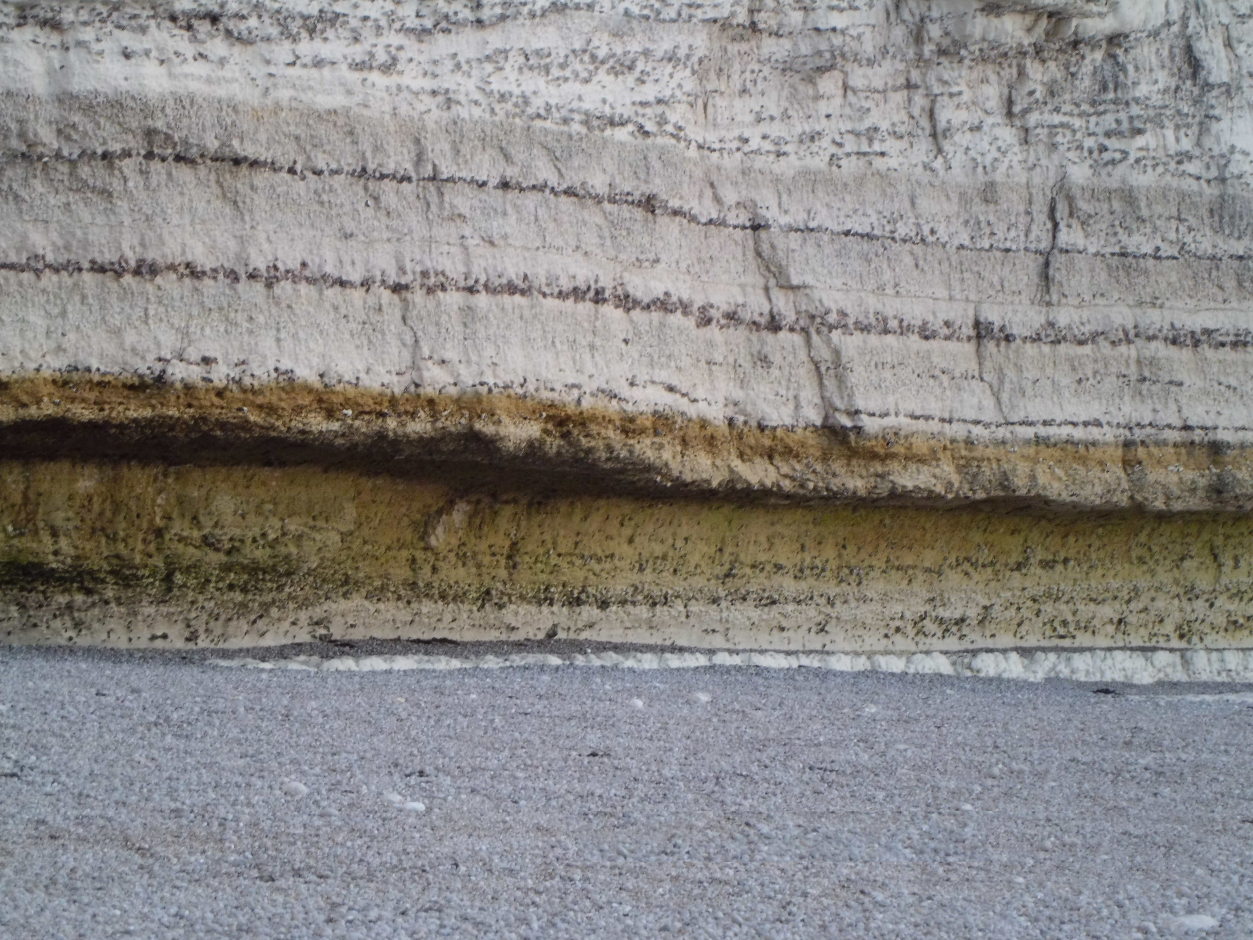 Cliff structure at Etretat (Normandy)